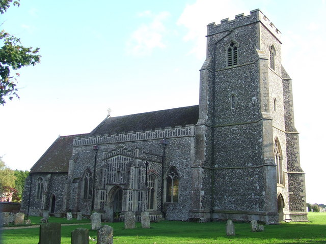 Nave, west tower and north porch of St Peter's parish church, Felsham, Suffolk, seen from the northwest